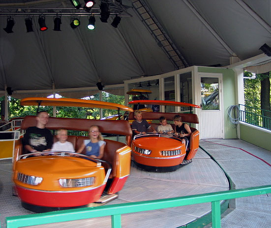 Virvelvinden Carousel at Lisberg, Göteborg, Sweden.